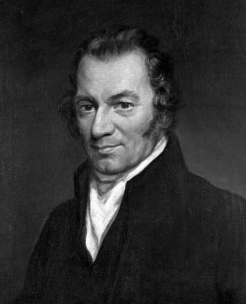 Portrait of John Hodgkin I, father of Thomas Hodgkin M.D.